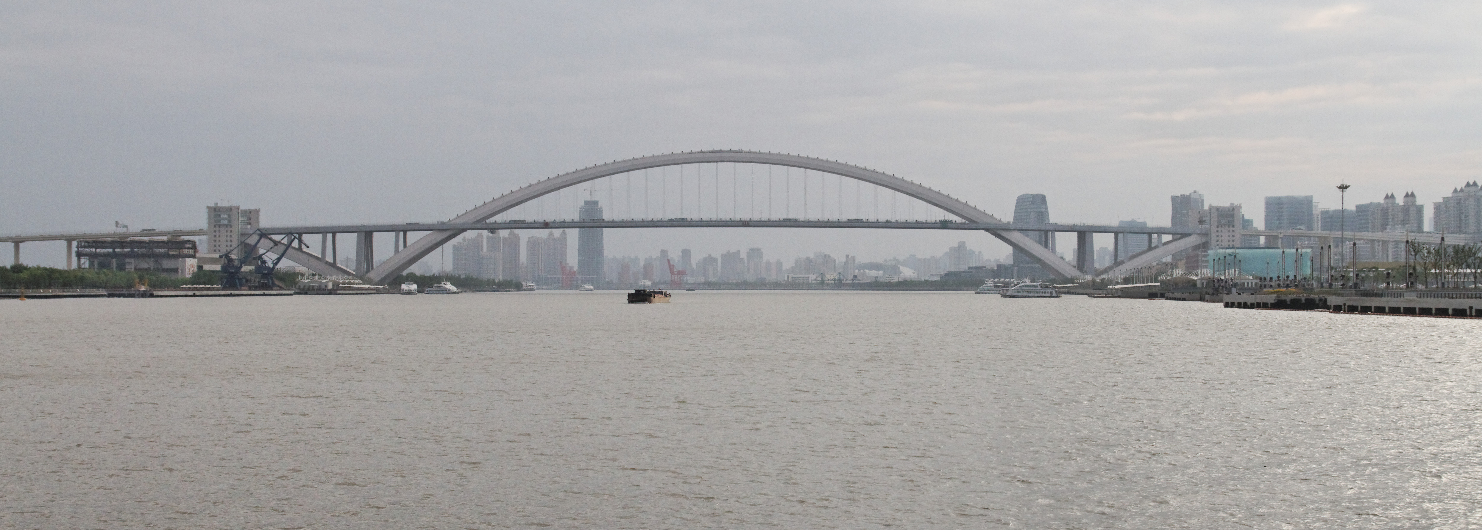 Lupu Bridge in Shanghai, from Expo 2010 ferry